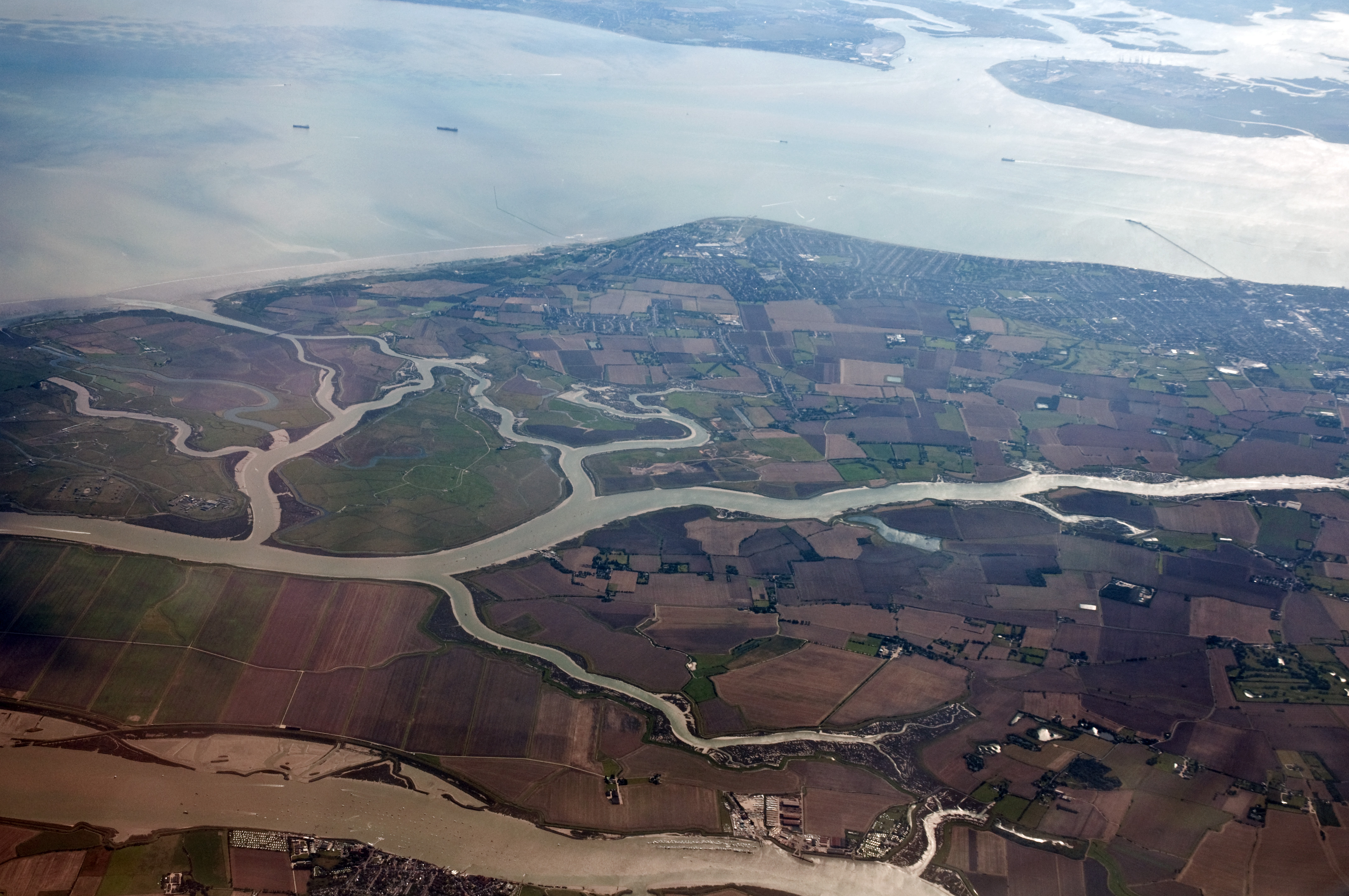 Arriving from Hong Kong on an Air New Zealand 777